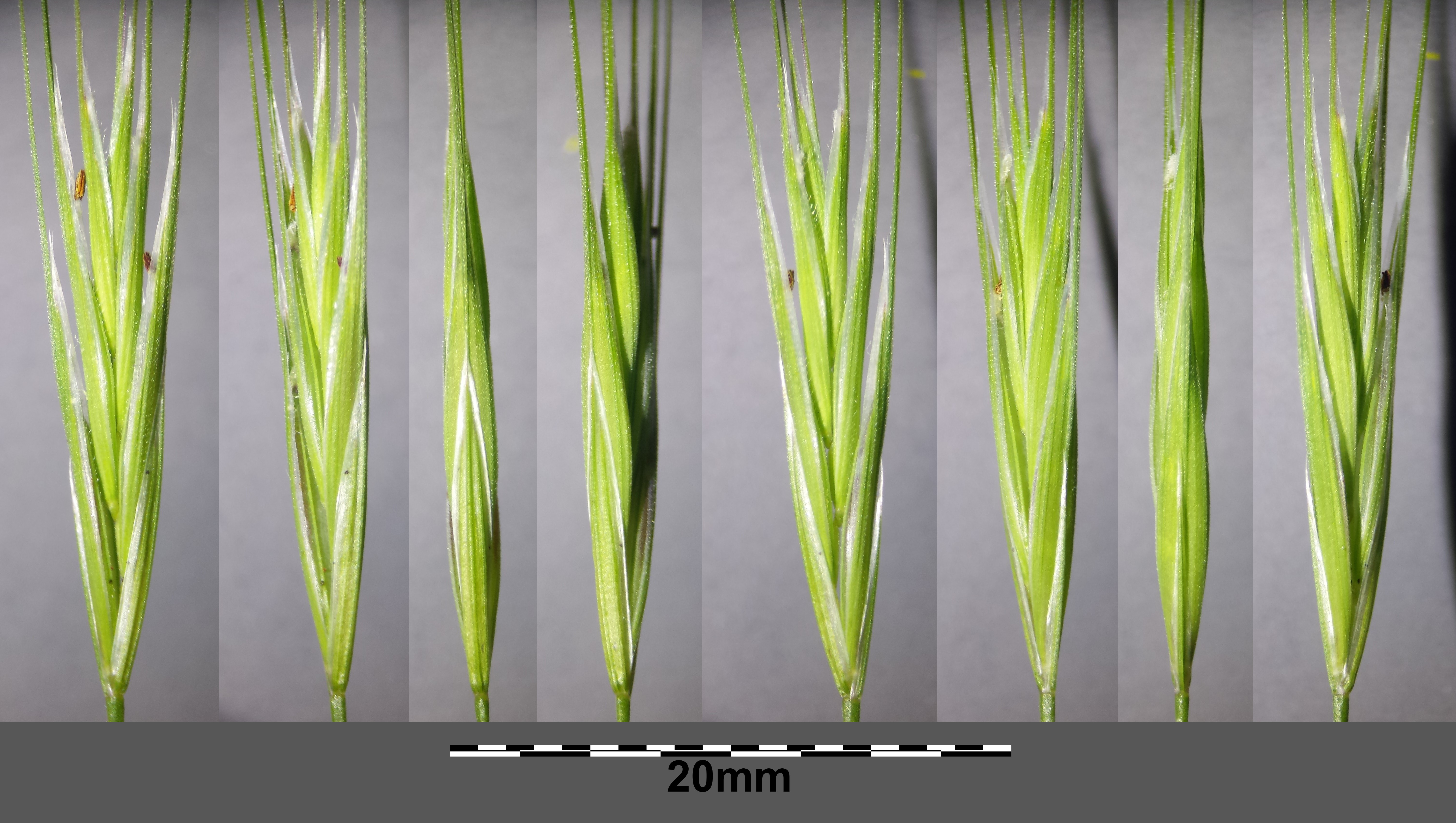 Spikelet Taxonym: Bromus sterilis ss Fischer et al. EfÖLS 2008 ISBN 978-3-85474-187-9 Location: Donaupark, Vienna-Donaustadt - ca. 160 m a.s.l. Habitat: ruderal, dry meadows